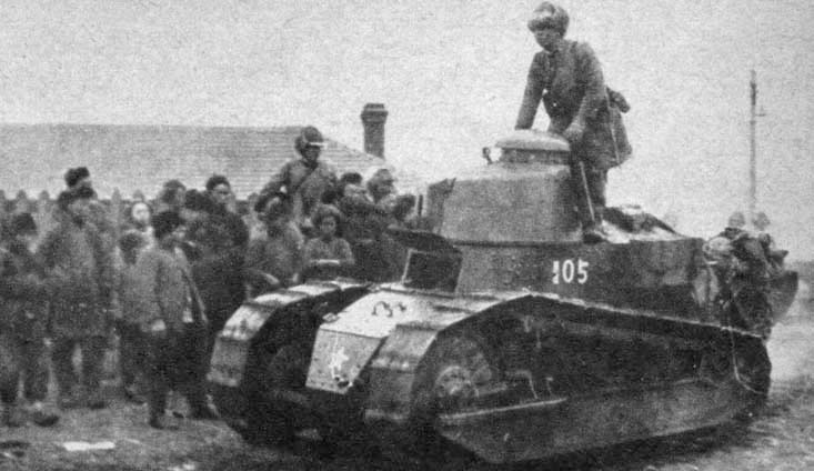 Japanese Renault FT17 tank of the tank detachment stationed at Kurume (1st Tank Battalion), Chinchow Station after the fall of Chinchow.